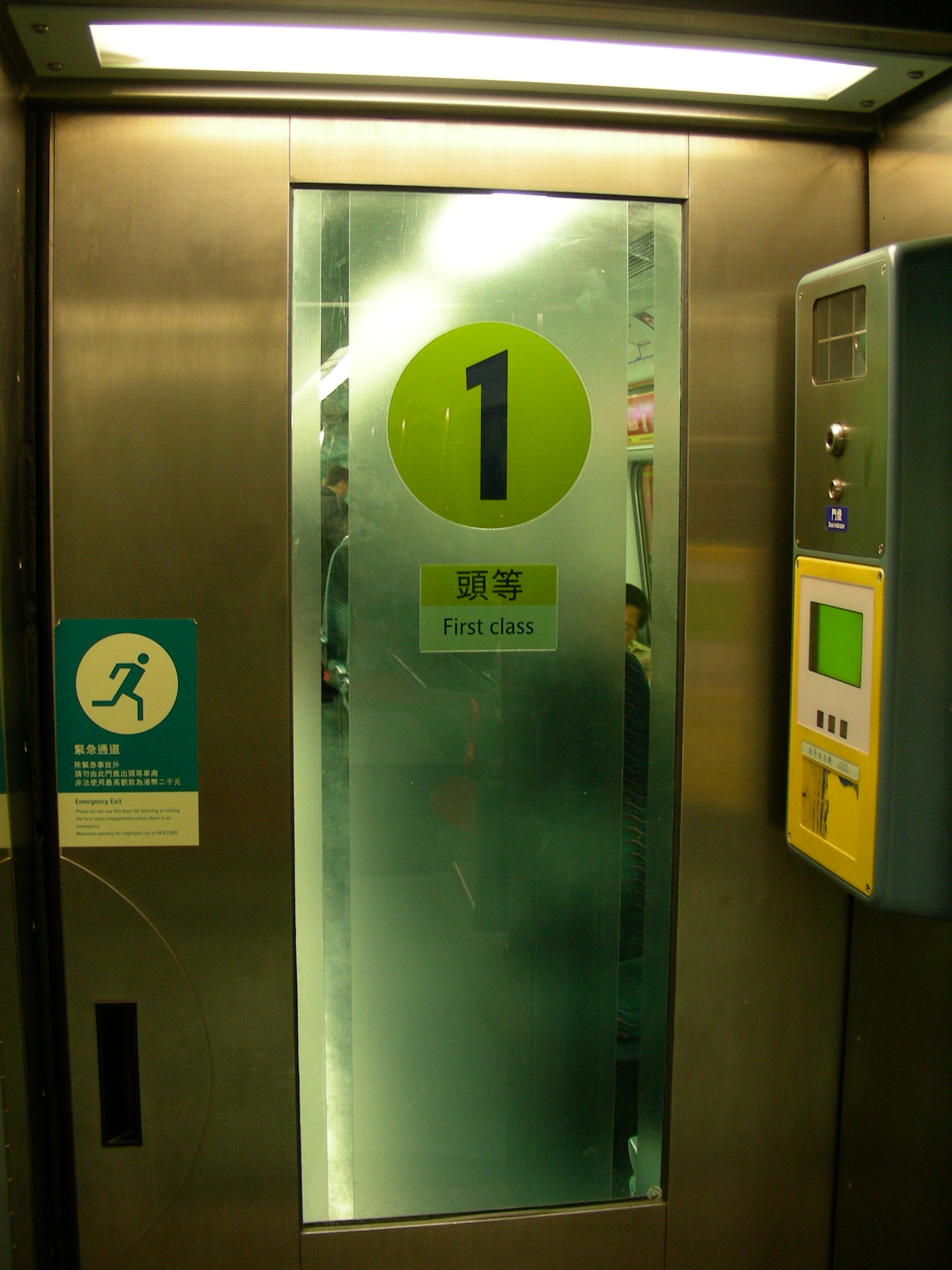 KCE Mid-Life Refurbished EMU First Class compartment though door,standard Class side